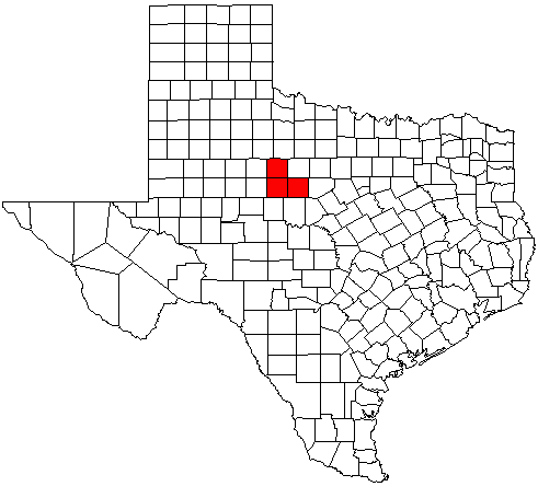 Map of Texas highlighting the Abilene Metropolitan Statistical Area; created with the GIMP. Made by User:Acntx.